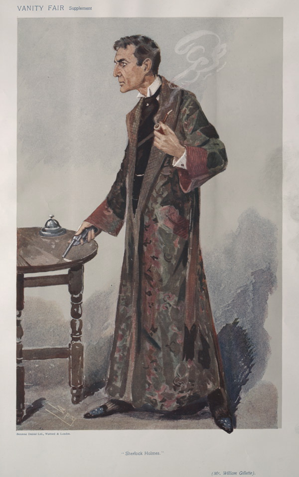 Men of the Day No.1055: Caricature of Mr William Gillette. Caption reads: "Sherlock Holmes"